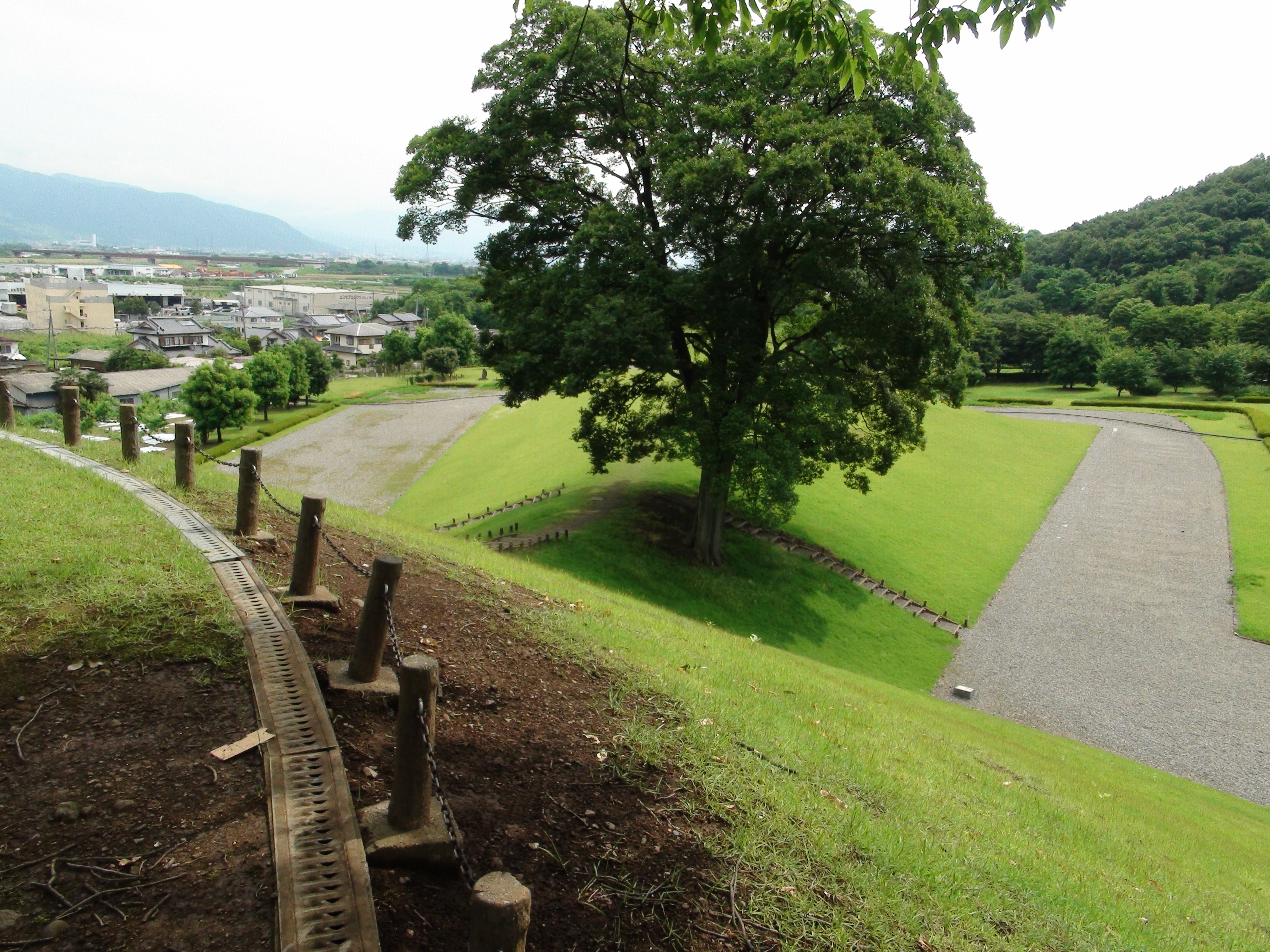 Kai-Choshizuka-kofun Old tomb at kofu-city